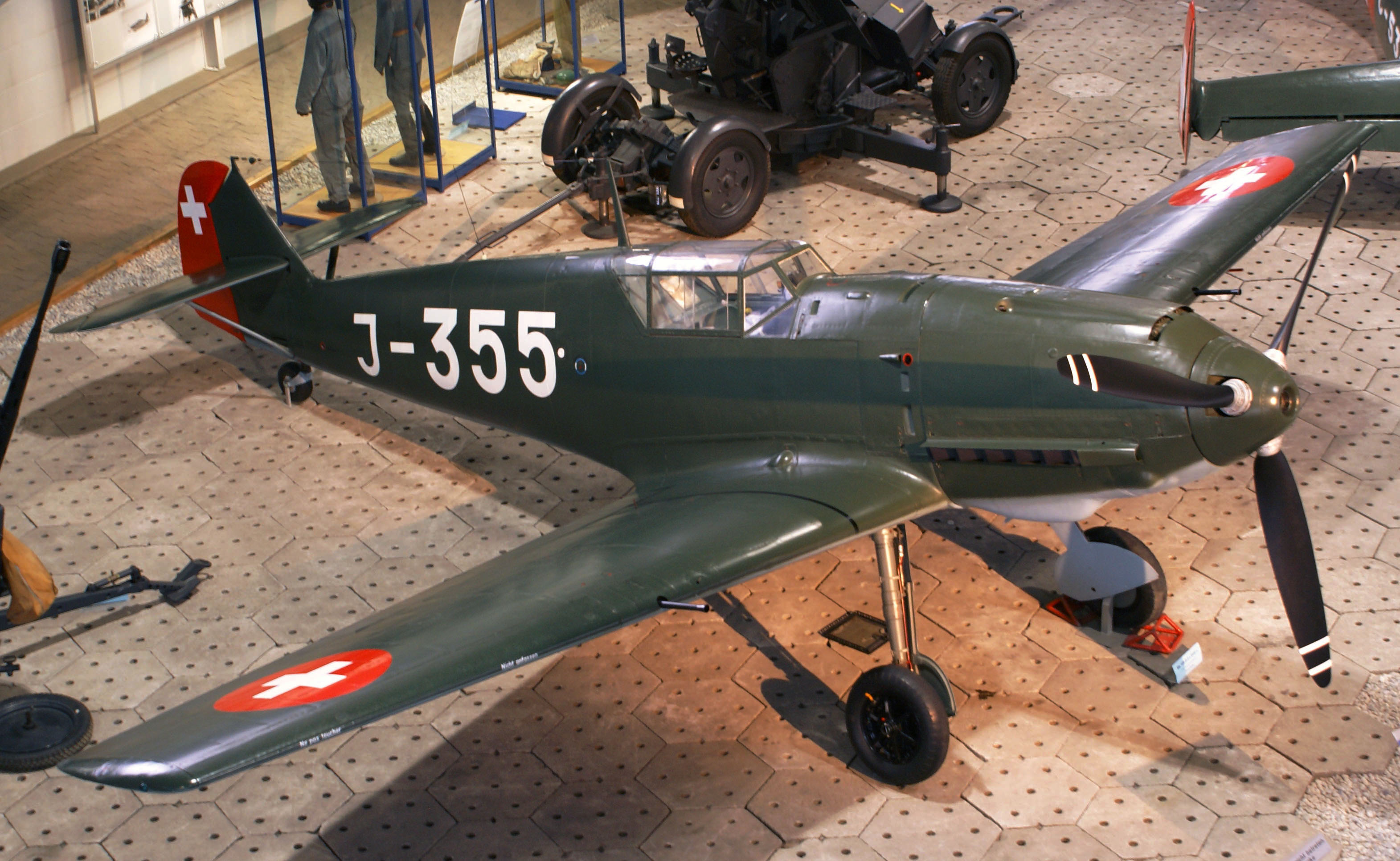 Messerschmitt Bf 109 E-3 (Me 109) fighter aircraft as used by the Swiss Air Force, 1939-1948.